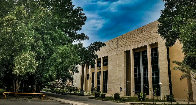 this building is from Persian gulf university research center institution and its library